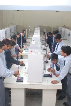 chemistry lab hit